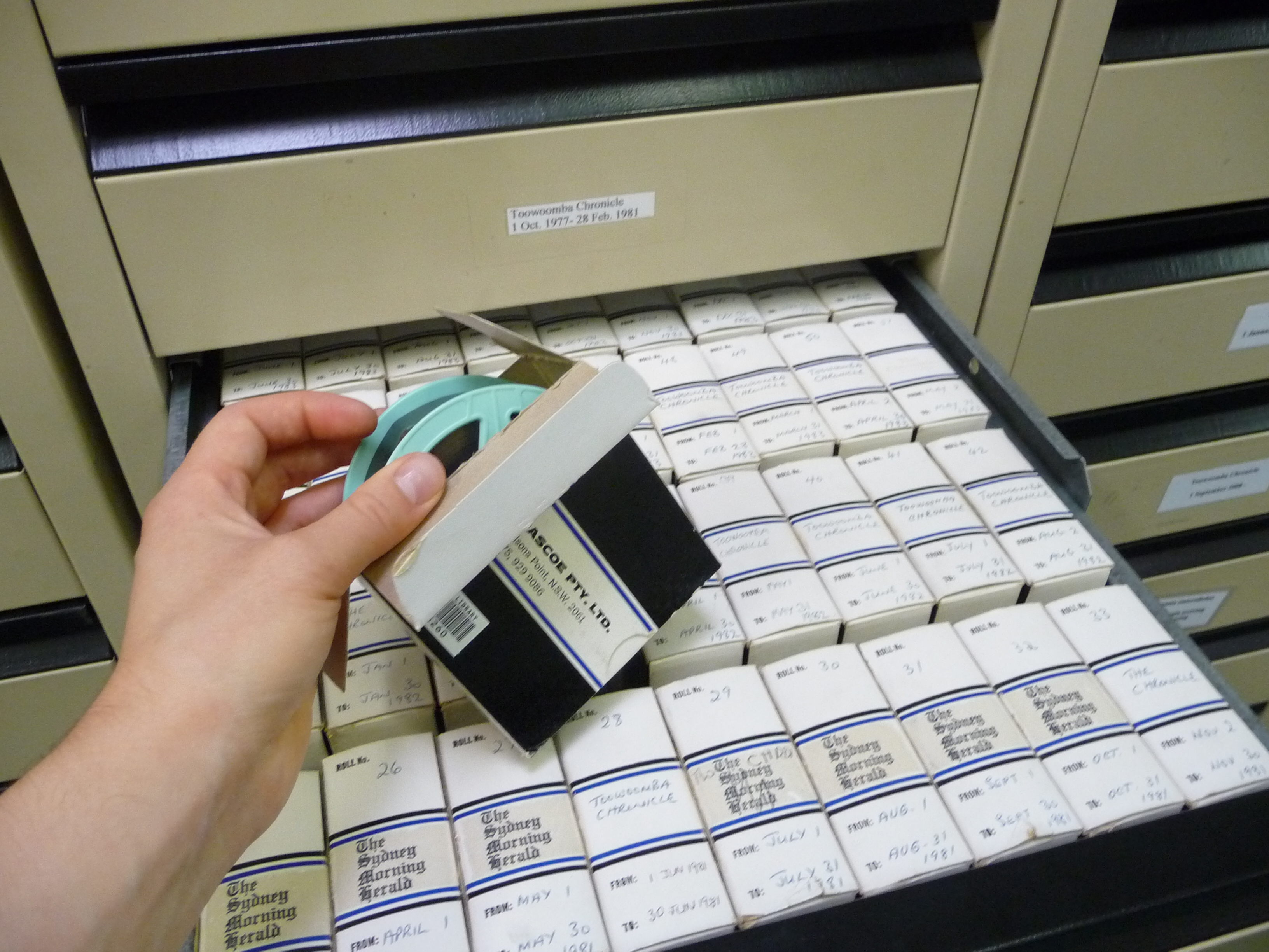 Microfilm of Toowoomba Chronicle